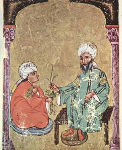 Dioscorides